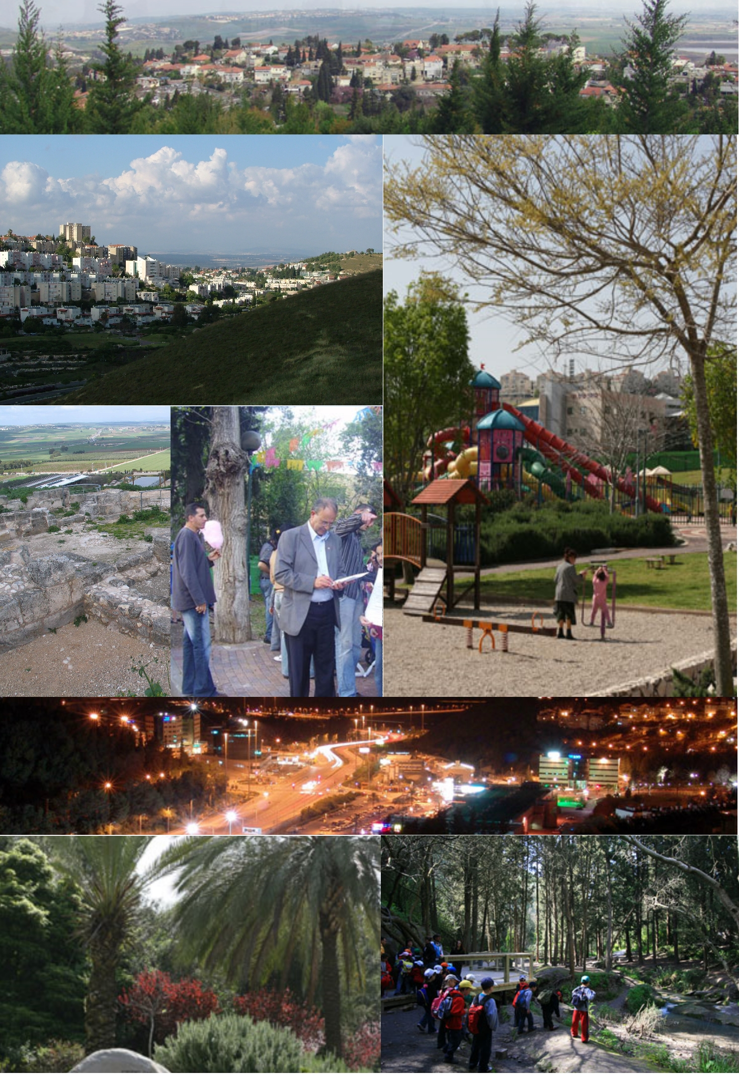 Yokneam Illit